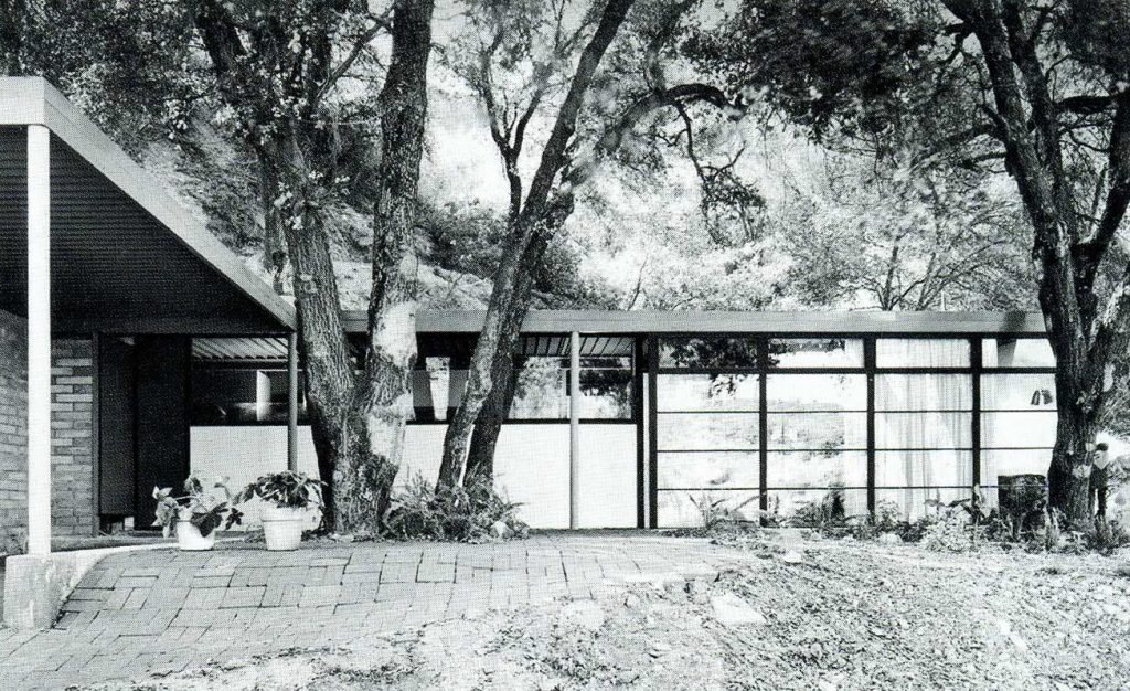 work of julius Shuman